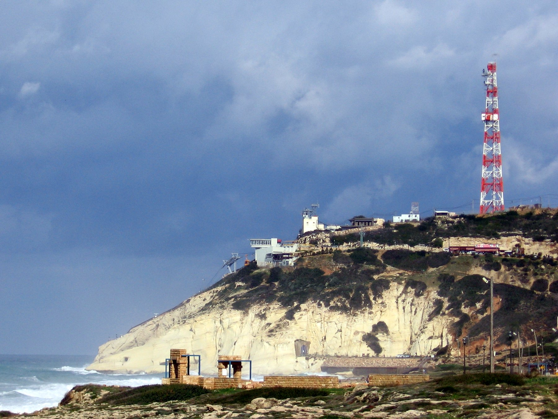 Rosh HaNikra from the south